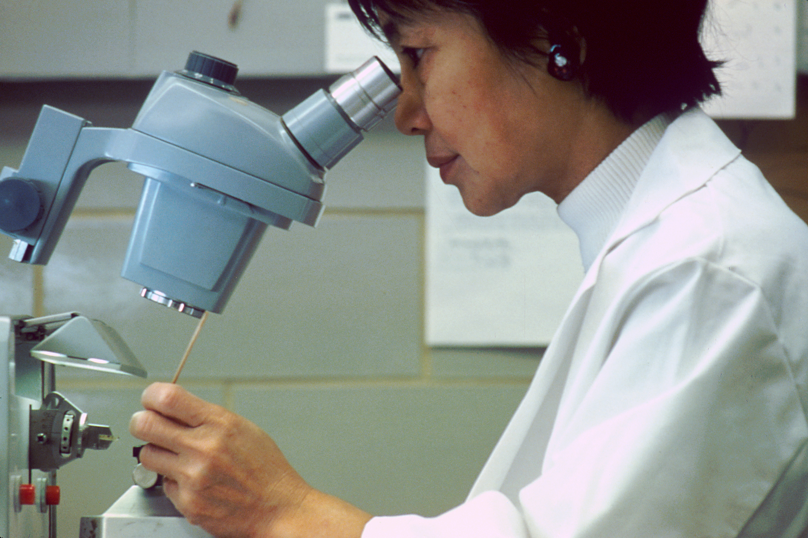 Title Scientist Looking Thorugh Microscope Description An Asian female scientist in a laboratory coat looking through a microscope. Topics/Categories People -- Adult People -- Health Professional Science and Technology -- Laboratory Techniques/Equipment Type Color, Photo Source National Cancer Institute